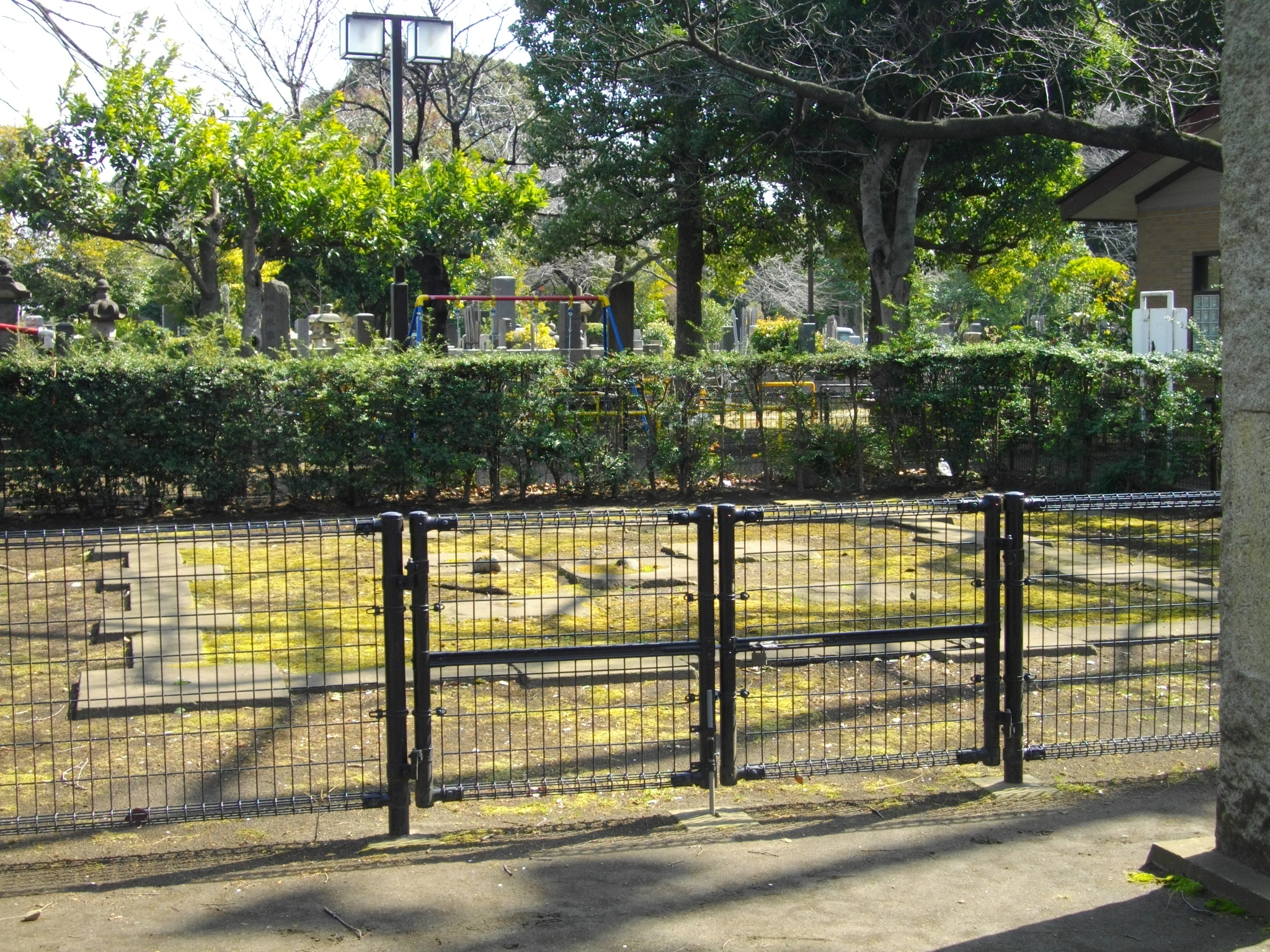 Remains of Yanaka Five-storied Pagoda